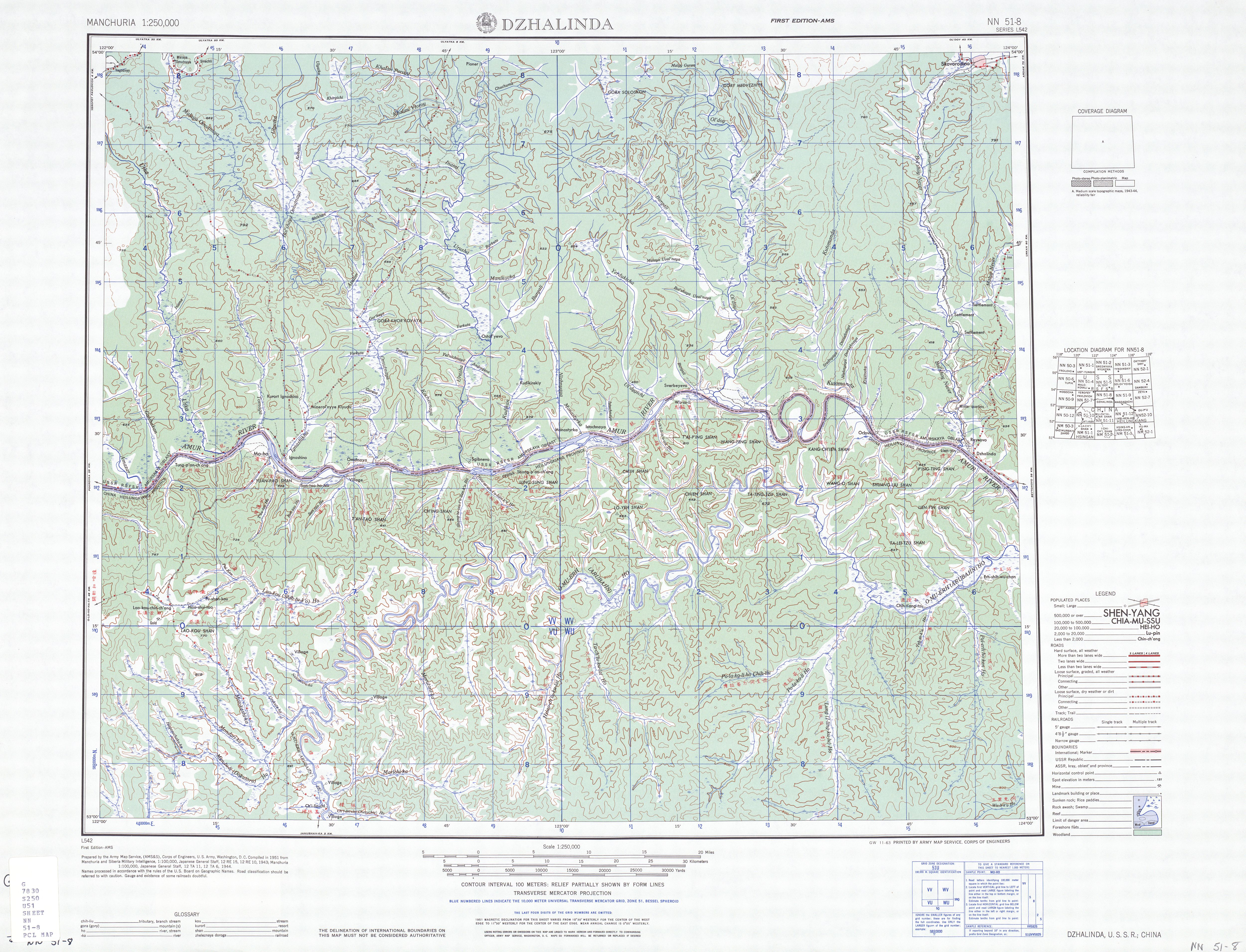 Map of Dzhalinda area, USSR (present-day Russia)